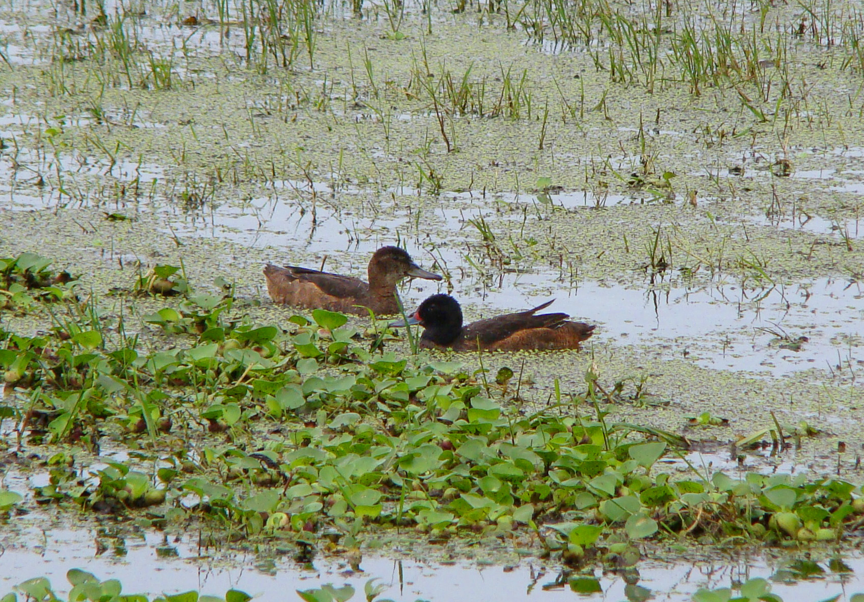 Heteronetta atricapilla couple in breeding plumage photographed in Povo Novo, Rio Grande do Sul, Brazil, in November 2009.